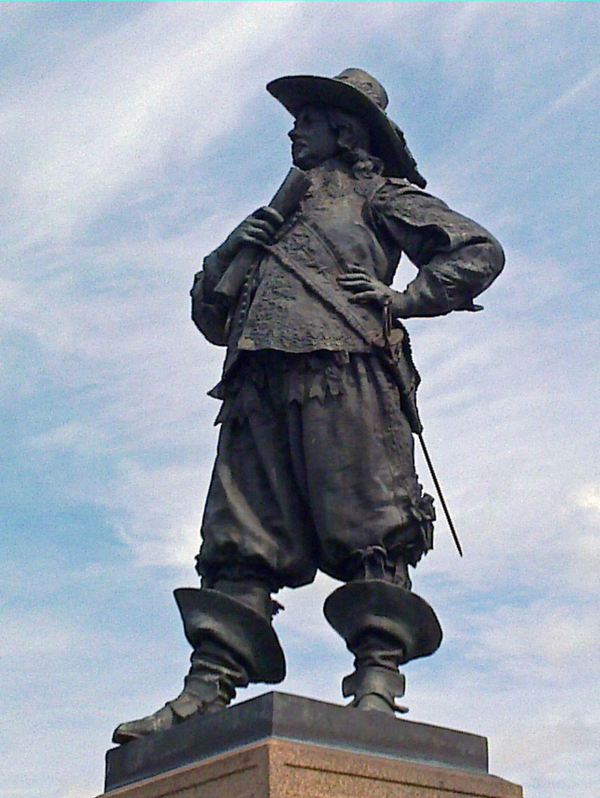 Bronze statue of Count Per Brahe, the General Governor in Finland by Walter Runeberg, 1888 in Raahe, Finland.